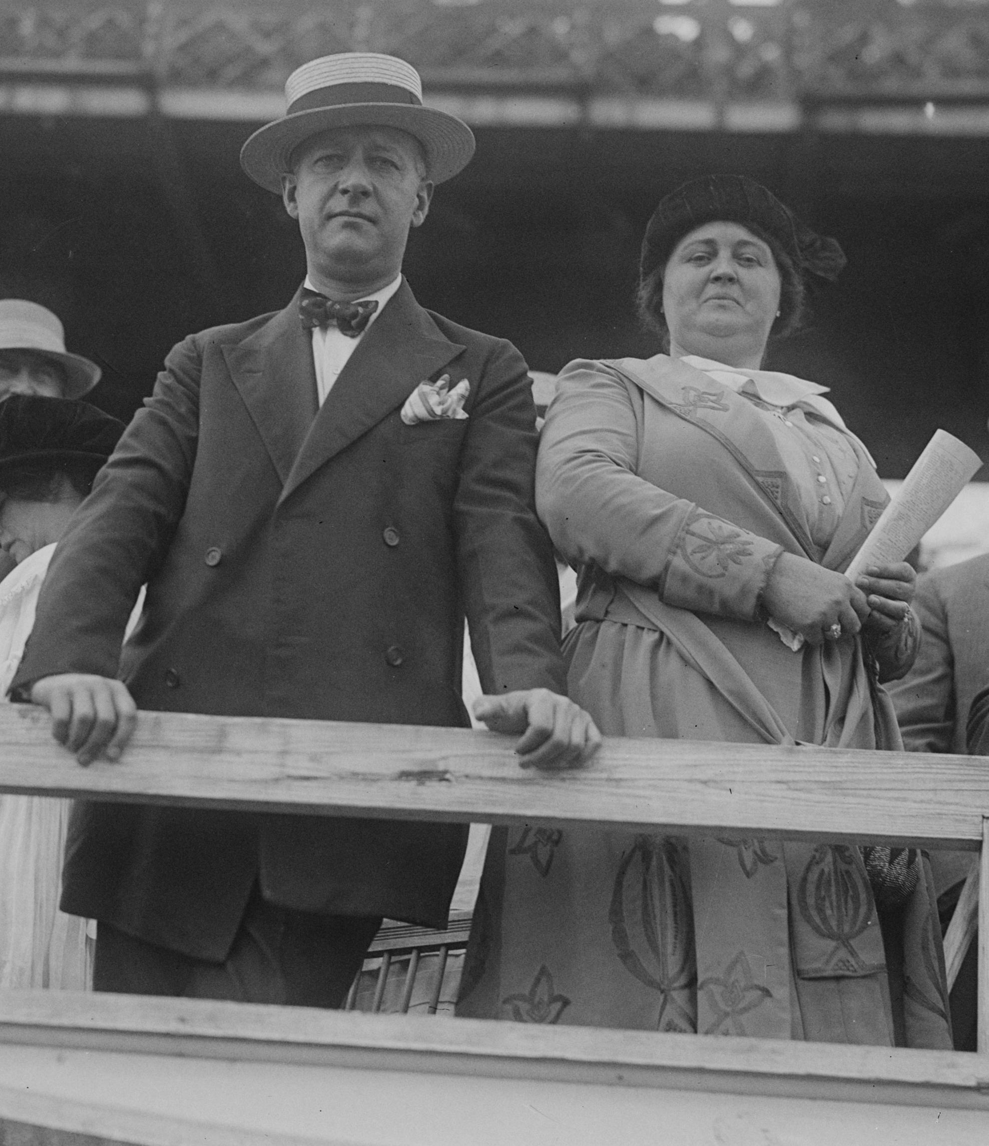 Al Smith with wife